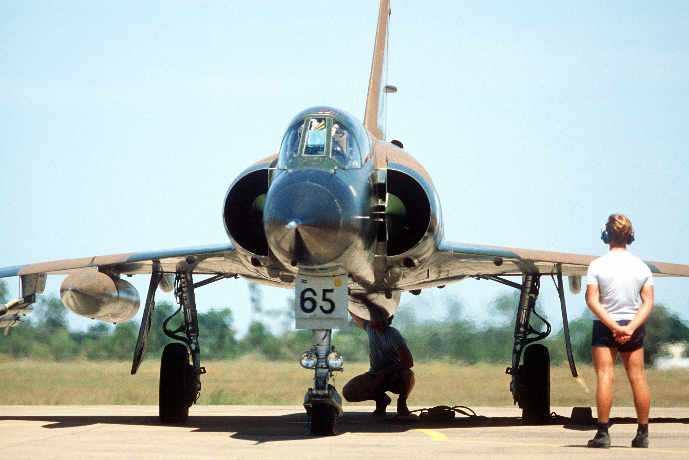 An Australian MIRAGE III, from the 75th Squadron, Royal Australian Air Force, is inspected. The MIRAGEs were to be used during PITCH BLACK 84, but were grounded due to problems with the landing gear. PITCH BLACK is a joint US, Australian and New Zealand exercise.